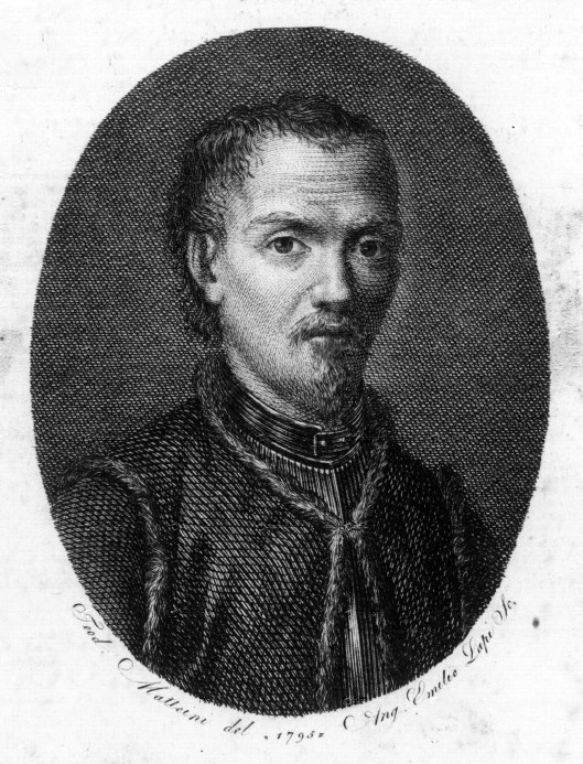 Circa 1370, Italian novelist and poet, Franco Sacchetti.